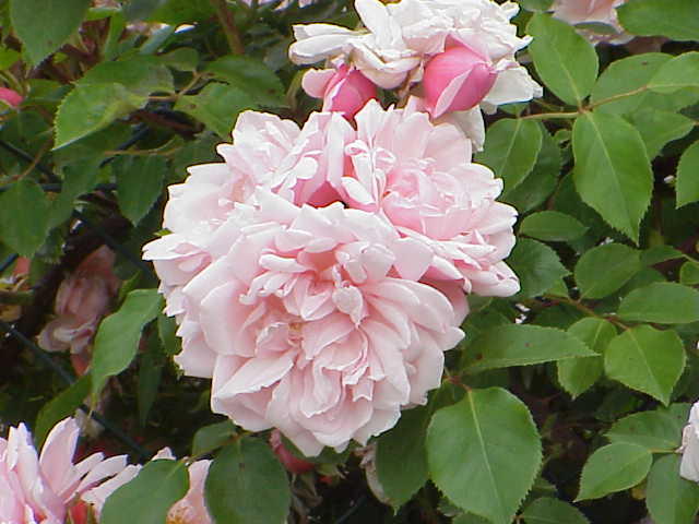 Species: Rosa sp. Family: Rosaceae Cultivar: Albertine, Barbier 1921 Image No. 22